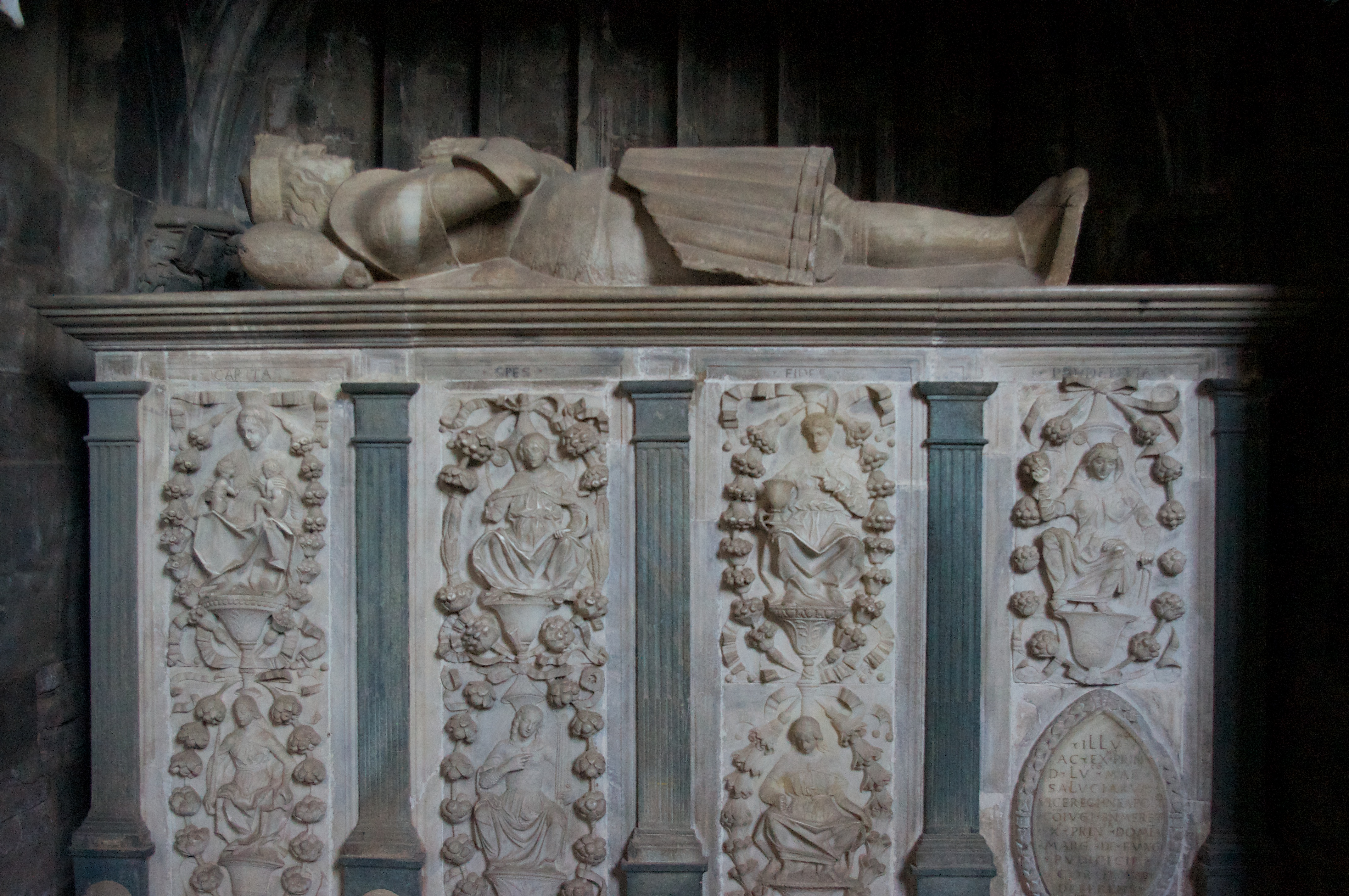 Sarcophagus of Ludovic of Saluzzo (1474 - 1504)